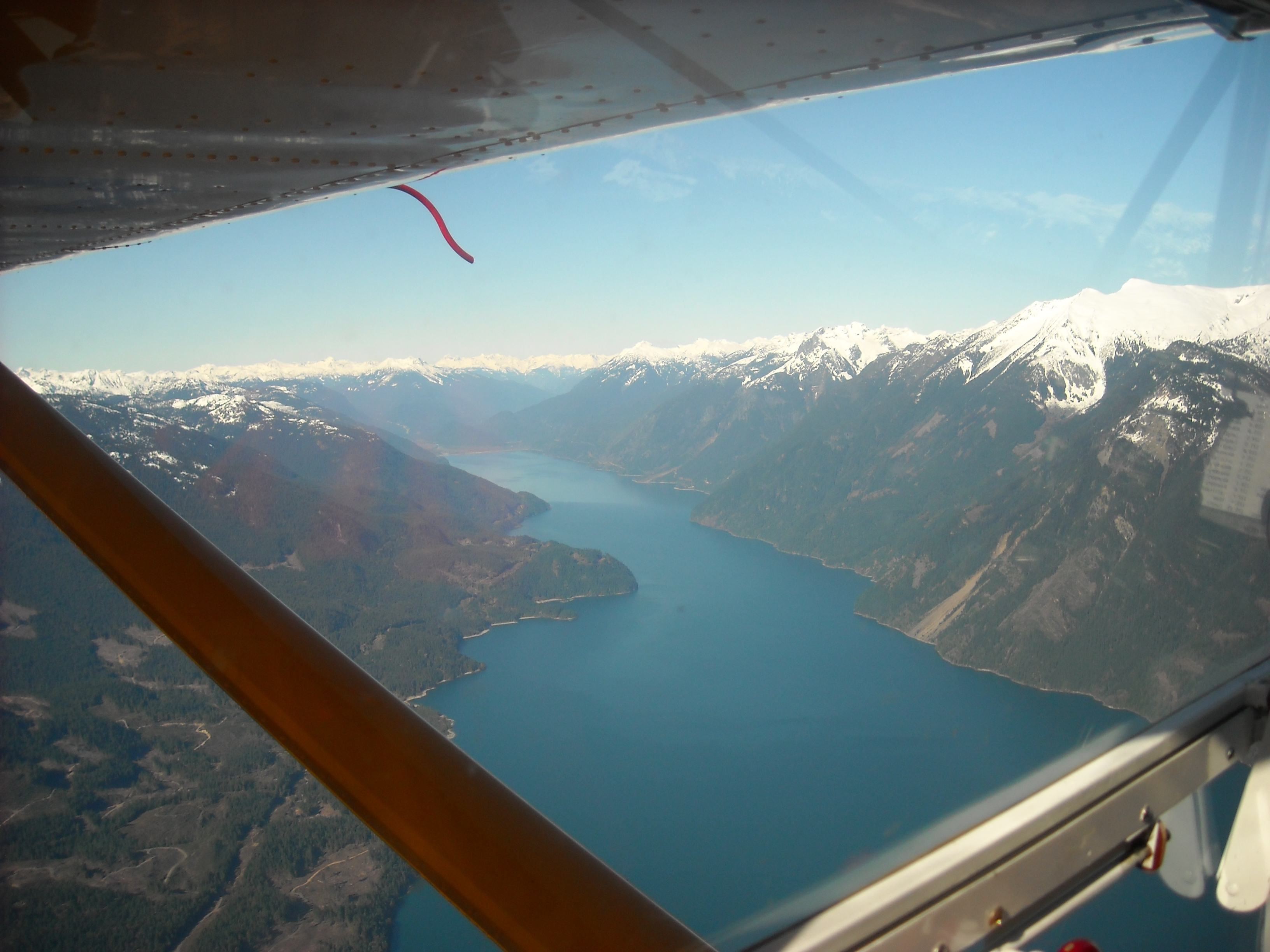 The back half of Harrison Lake, seen from the air. Coordinates are unknown.